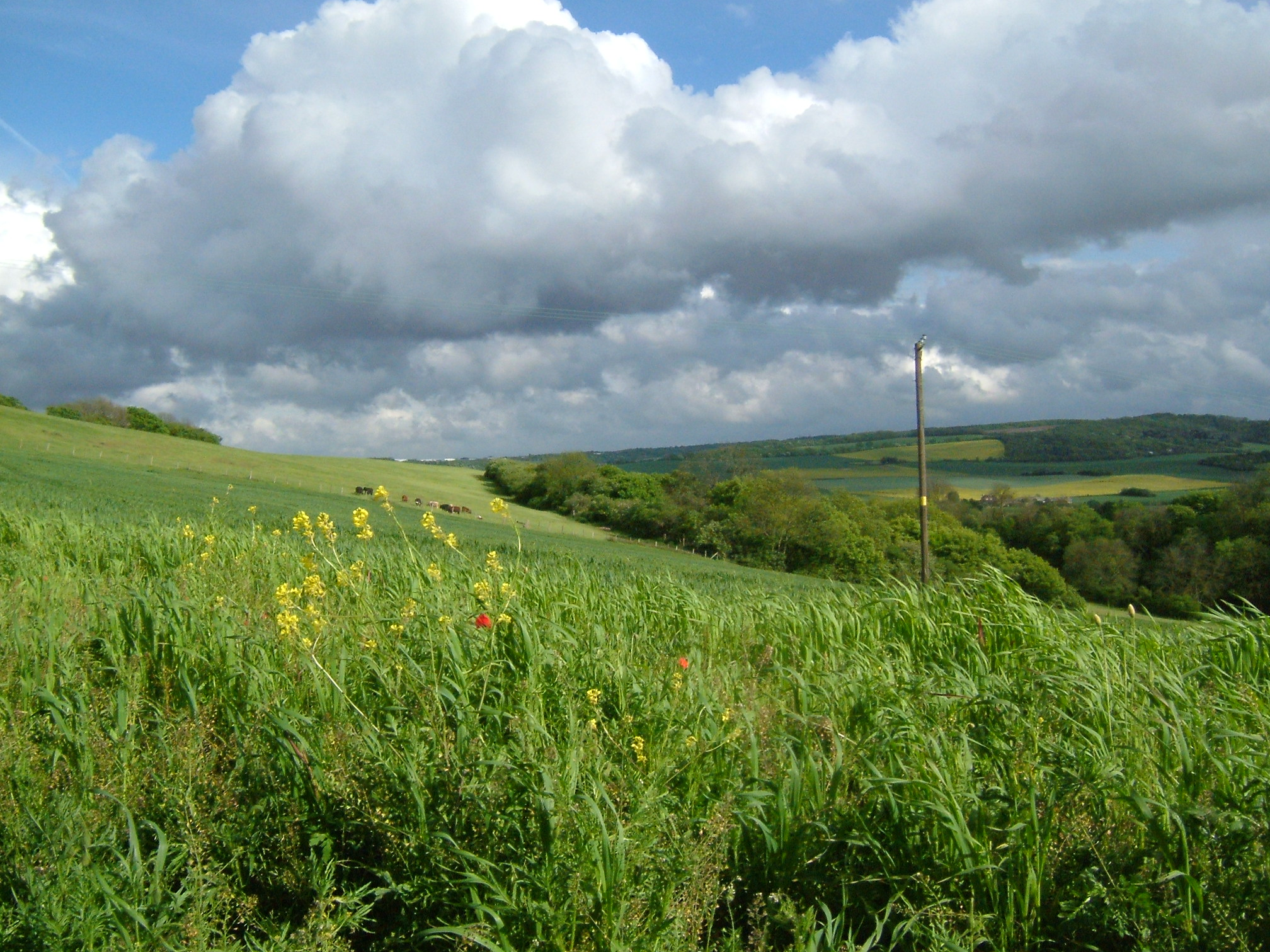 Downland scenery in Ranscombe Farm Nature Reserve near Cuxton, Kent. This is on The North Downs Way.